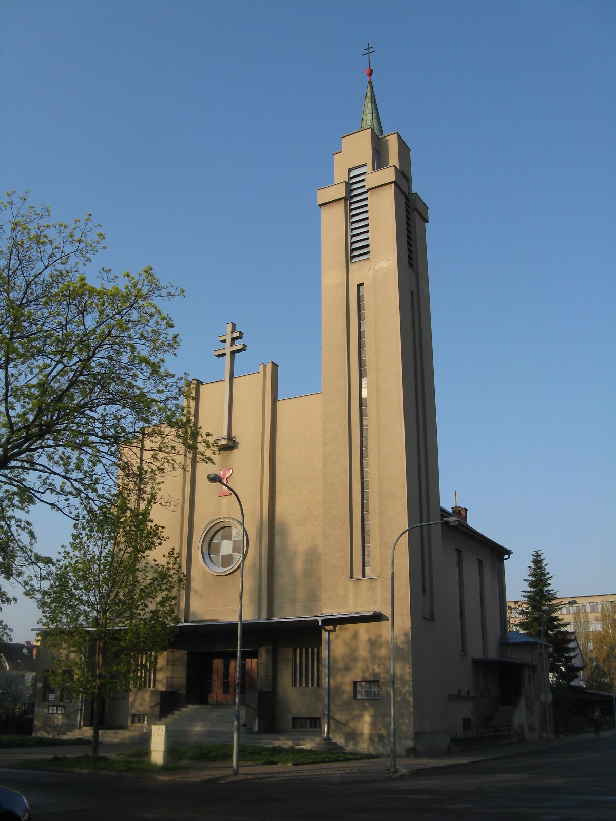 Building of the Czechoslovak Hussite Church, Brno, Židenice